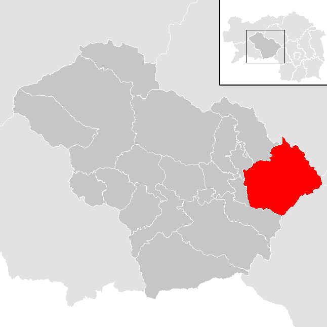 district Murtal in Styria, Austria